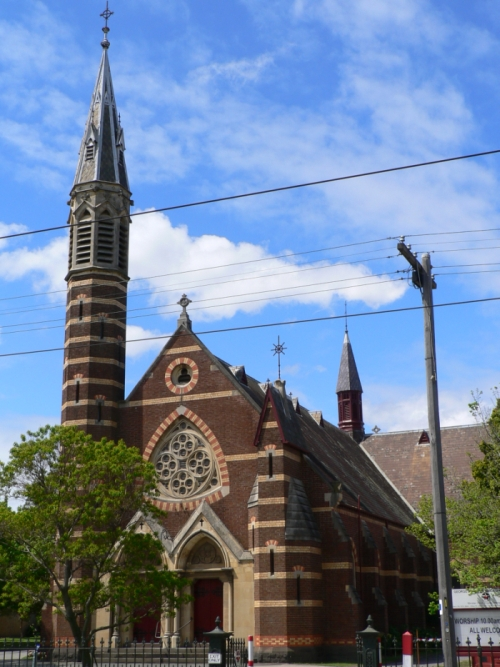 St George's Presbyterian Church. East St Kilda, Victoria